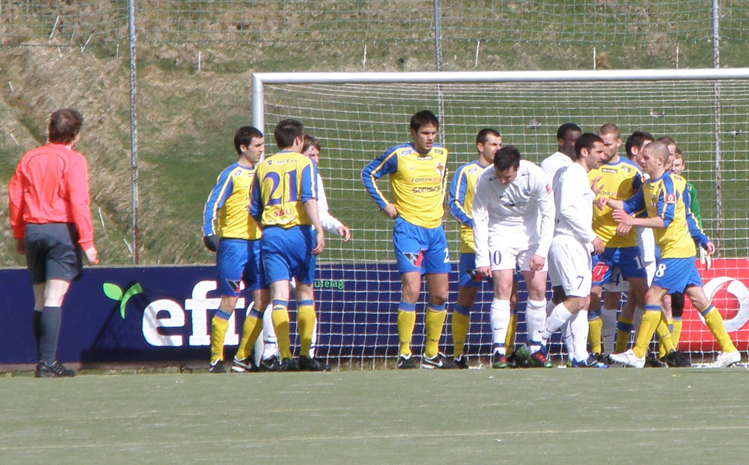 This photo was taken Inni í Dal on Sandoy island, Faroe Islands at the Faroese Premier League match (Vodafonedeildin) between B71 Sandoy and FC Suðuroy. B71 won the match 3-1. Føroyskt: Myndin er tikin Inni í Dal 2. mai 2010 tá B71 spældi móti FC Suðuroy í Vodafonedeildini. B71 vann dystin 3-1.